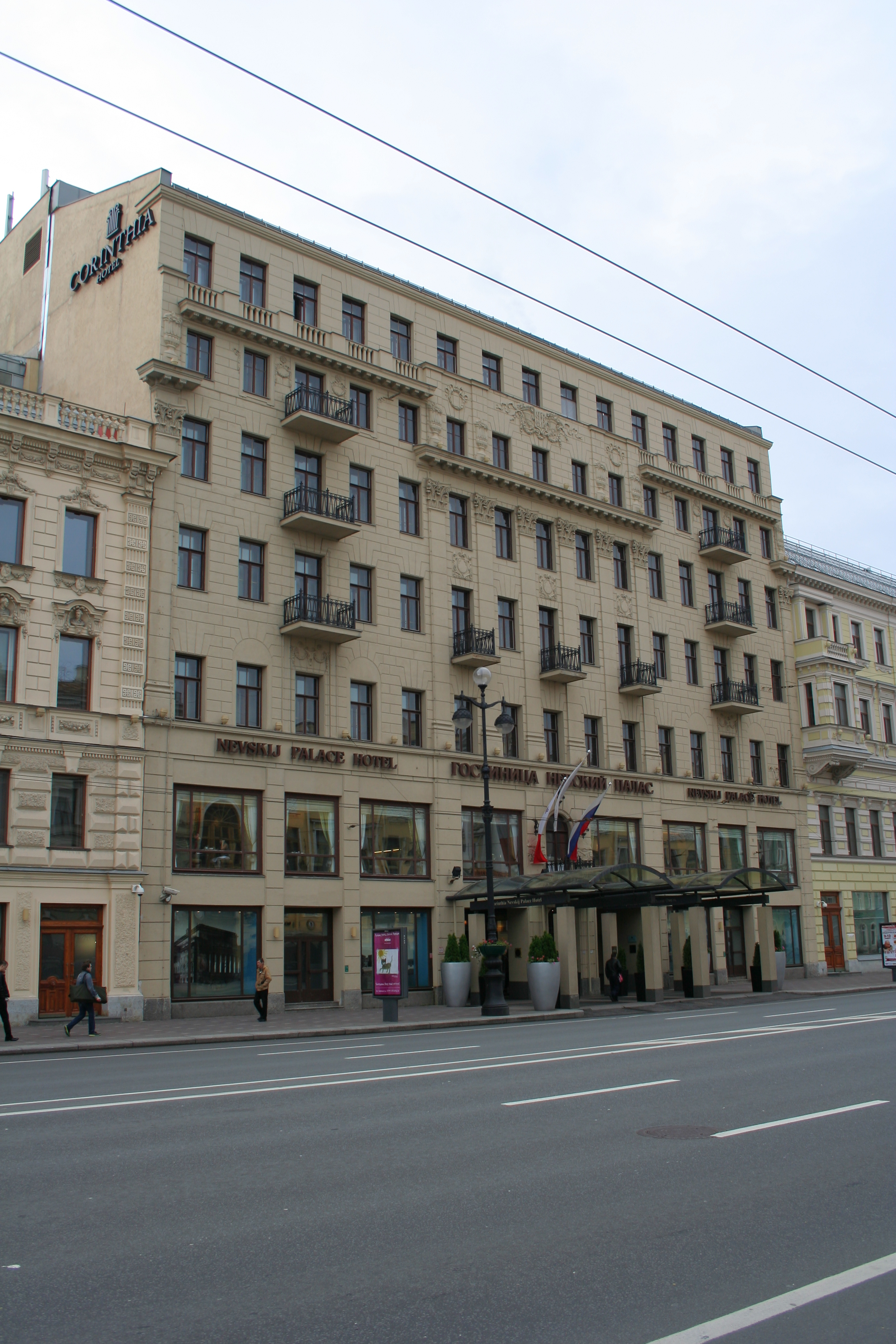 The Nevsky Prospekt in Saint Petersburg. House number 57.